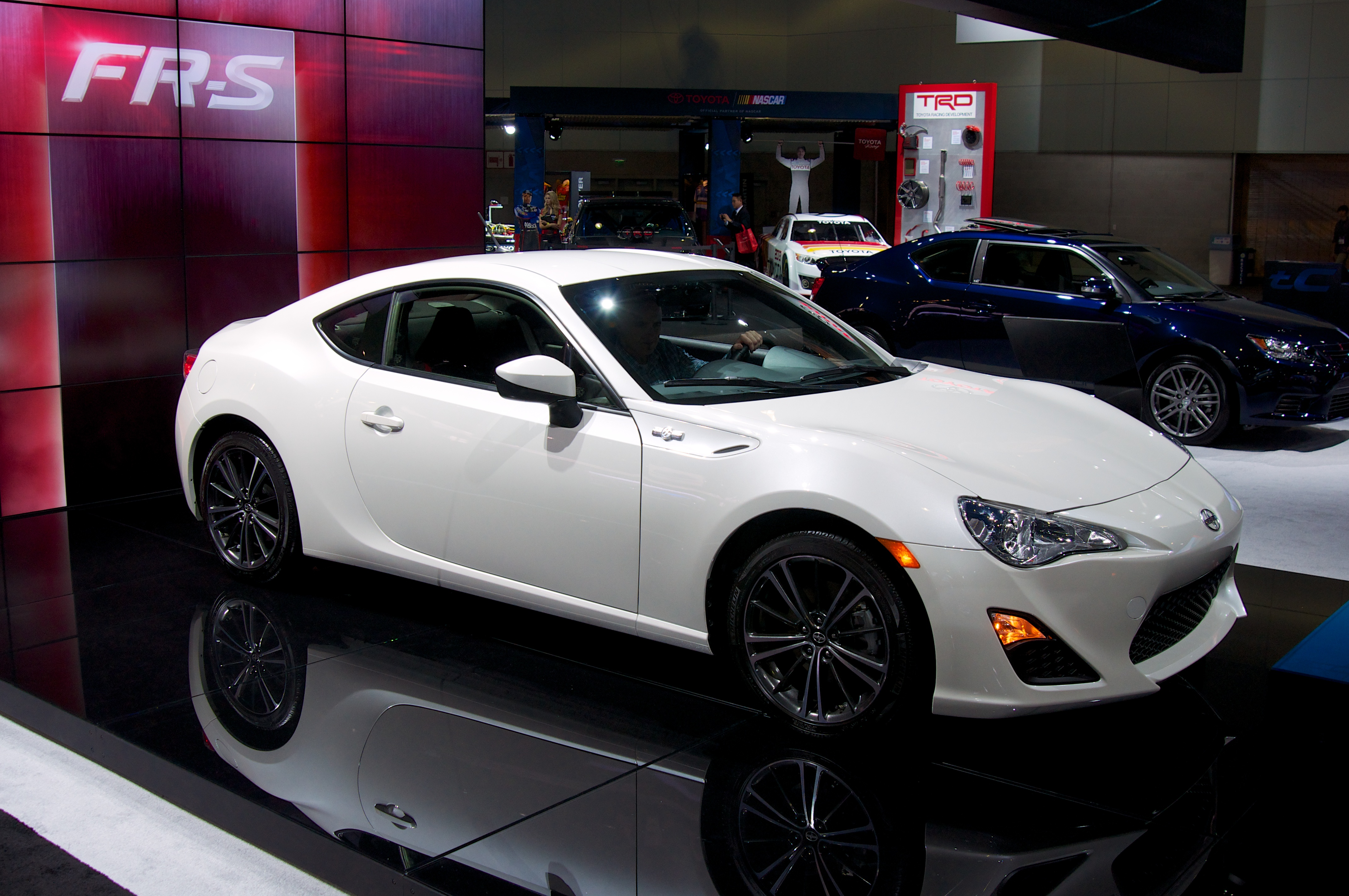 Seen at the 2012 Los Angeles Auto Show. Press day - Wednesday, November 28th. If you use one of my photos, please be so kind as to attribute me and link back to the photo's page. THANK YOU!